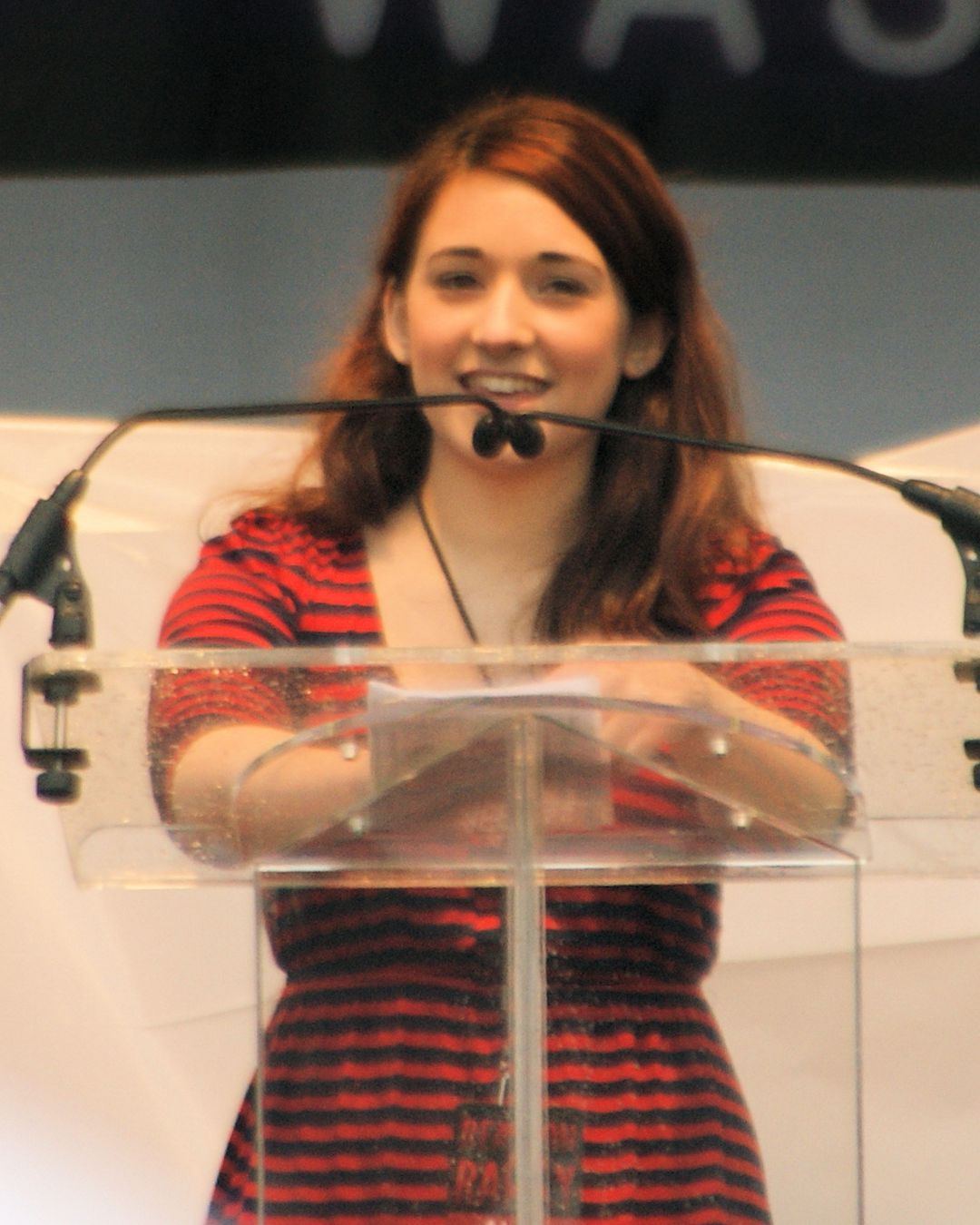 Jessica Ahlquist speaks at the Reason Rally. National Mall, Washington, DC, March 24, 2012.